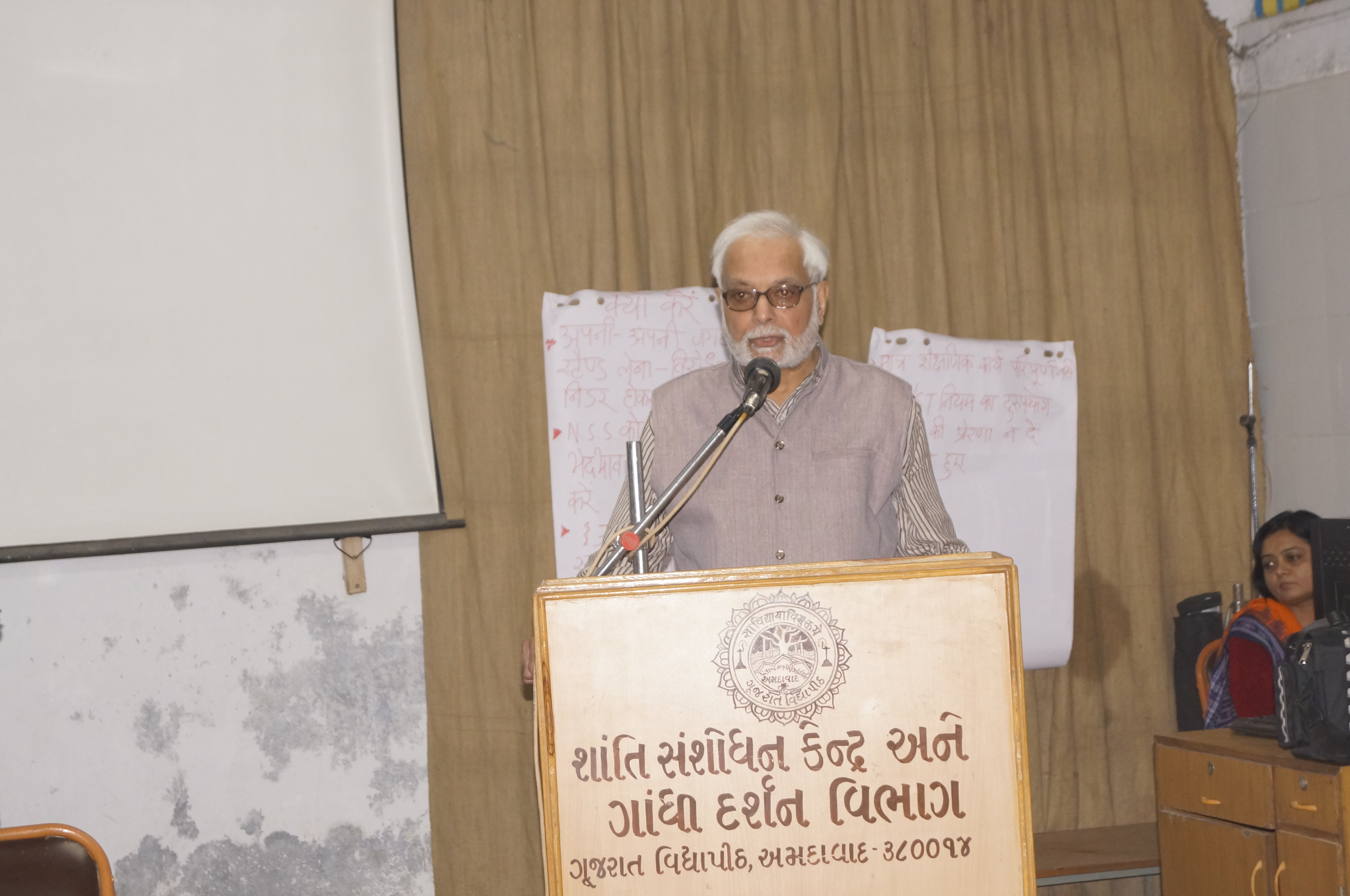 Vipul Kalyani